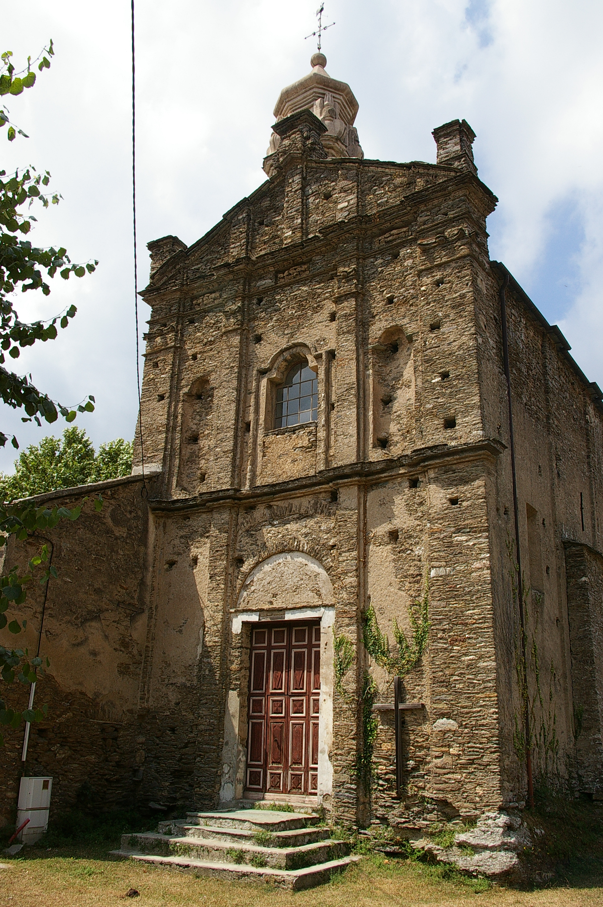 Church of Saint-Côme et Saint-Damien in San Damiano, Corsica